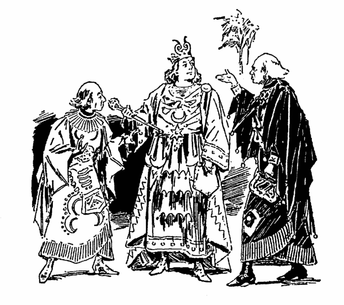 Image taken from